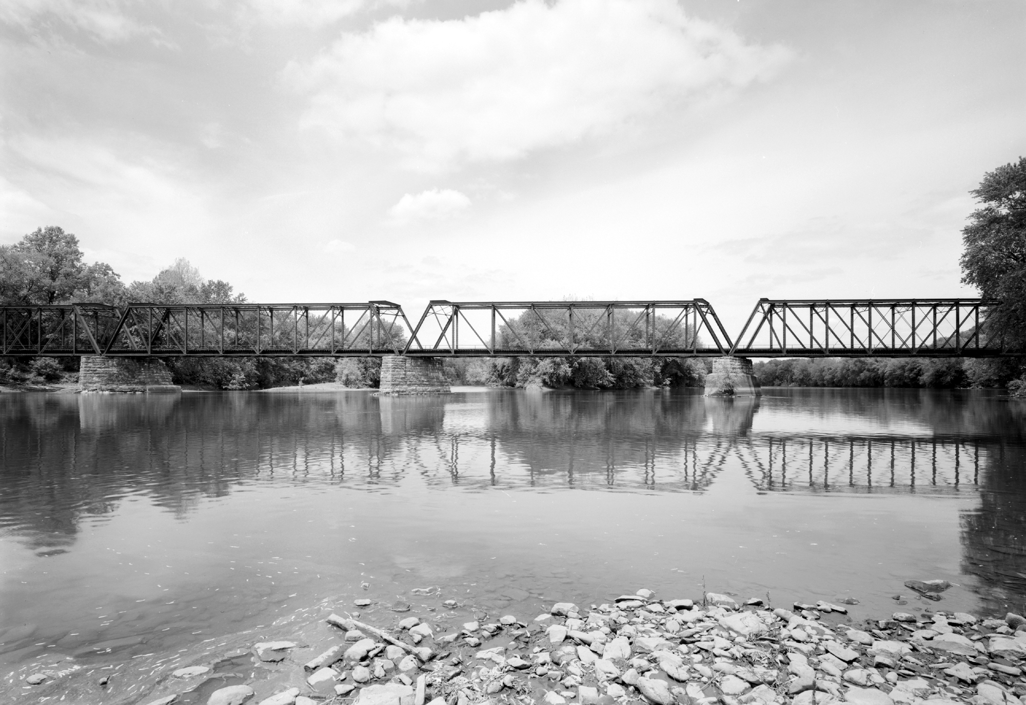 View of Selinsgrove Bridge, East Channel Spans, looking north. Bridge spans the Susquehanna River between Lower Augusta Township, Pennsylvania and Selinsgrove, Pennsylvania.